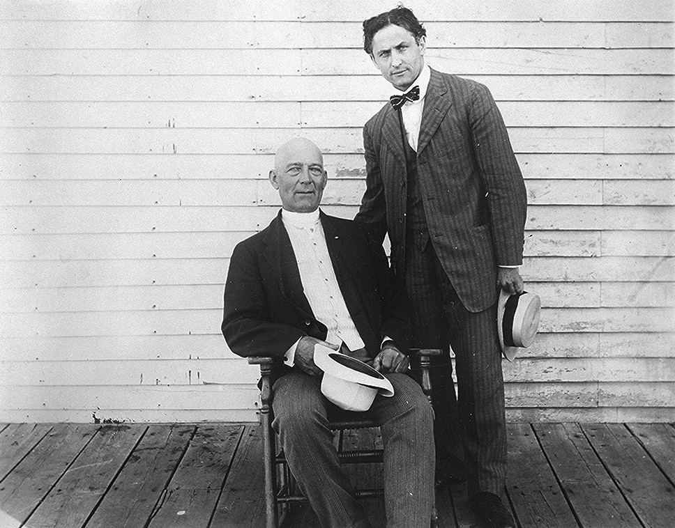 Harry Houdini, full-length portrait, standing, and Harry Kellar, seated.